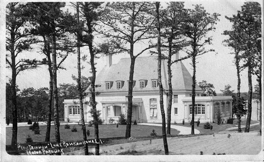 Photograph postcard of "Petit Trianon, Lake Ronkonkoma, Long Island - Motor Parkway.' Back is divided.